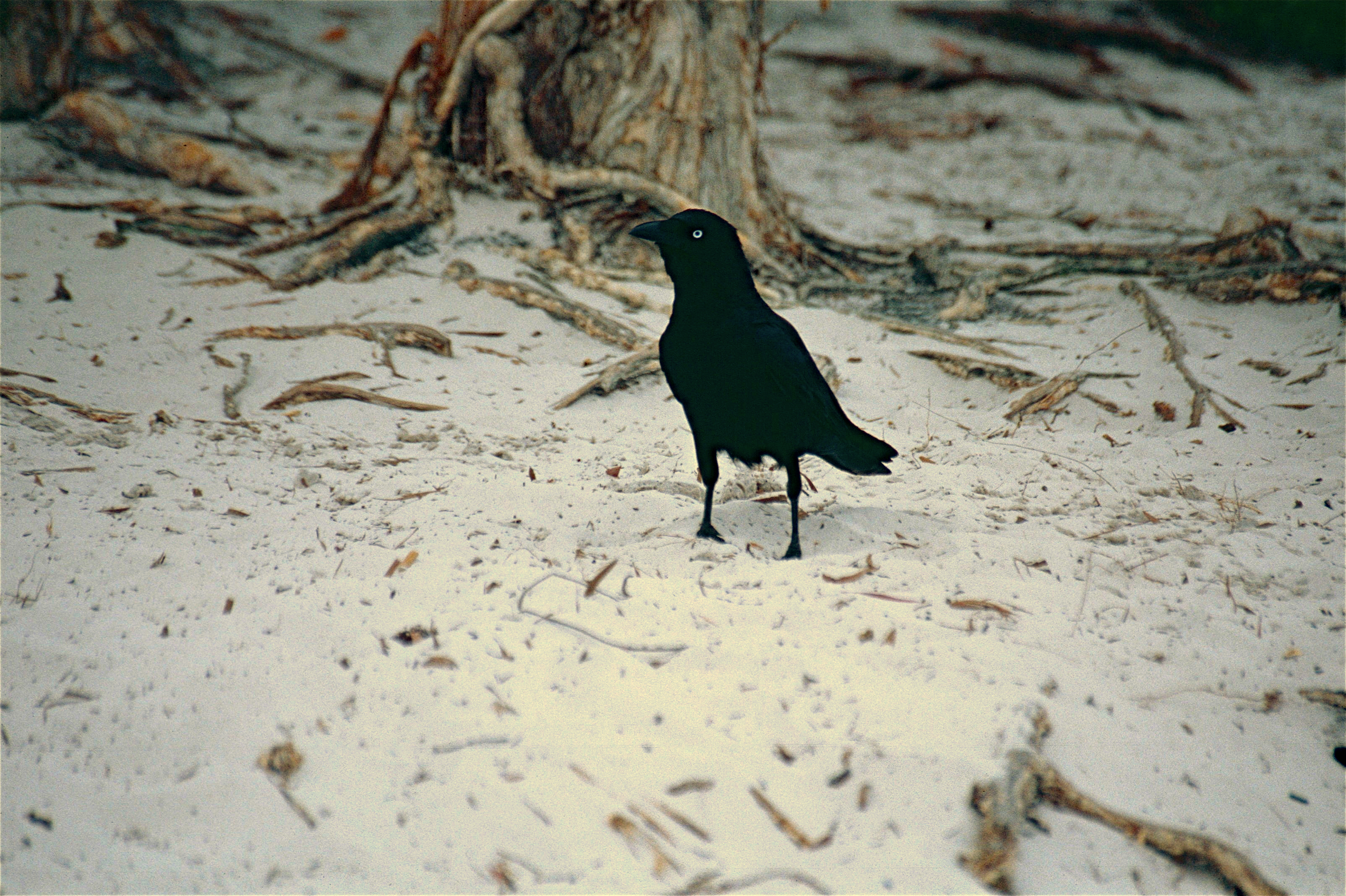 Lake McKenzie, Fraser Island, South Queensland, AUSTRALIA Scanned Slide from Dec 2000